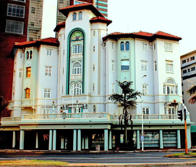 Quadrant House stands on Victoria Embankmant Durban and has vertically paired Tuscan Doric columns This media shows a South African Protected Site with SAHRA file reference 9/2/407/0016.